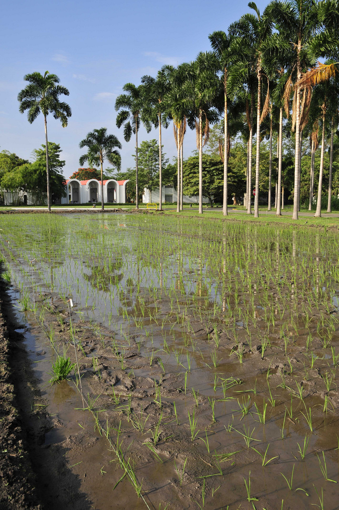 Rice trials at CIAT's headquarters in Colombia